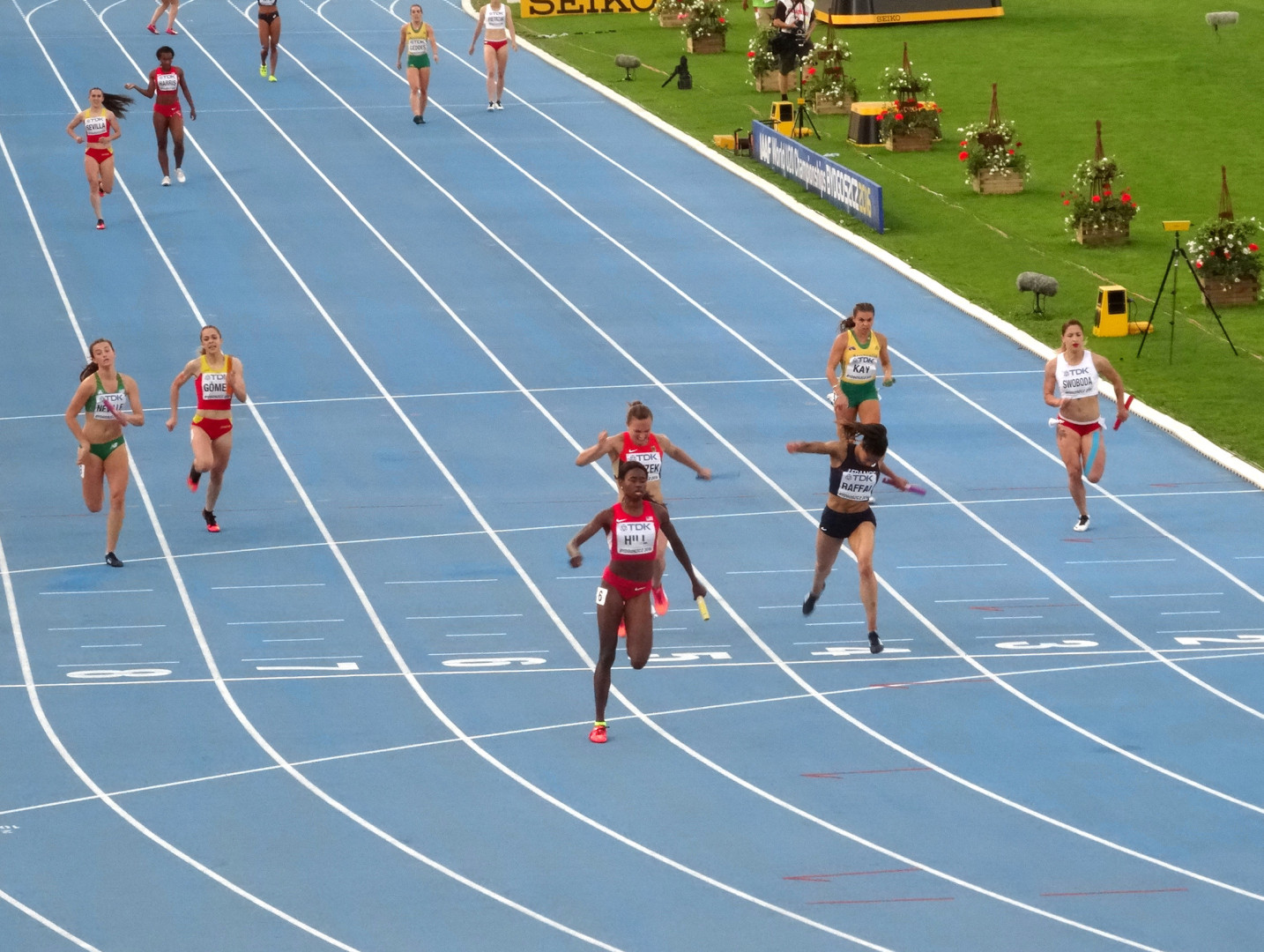 2016 IAAF World U20 Championships in Bydgoszcz, 4x100m relay women final